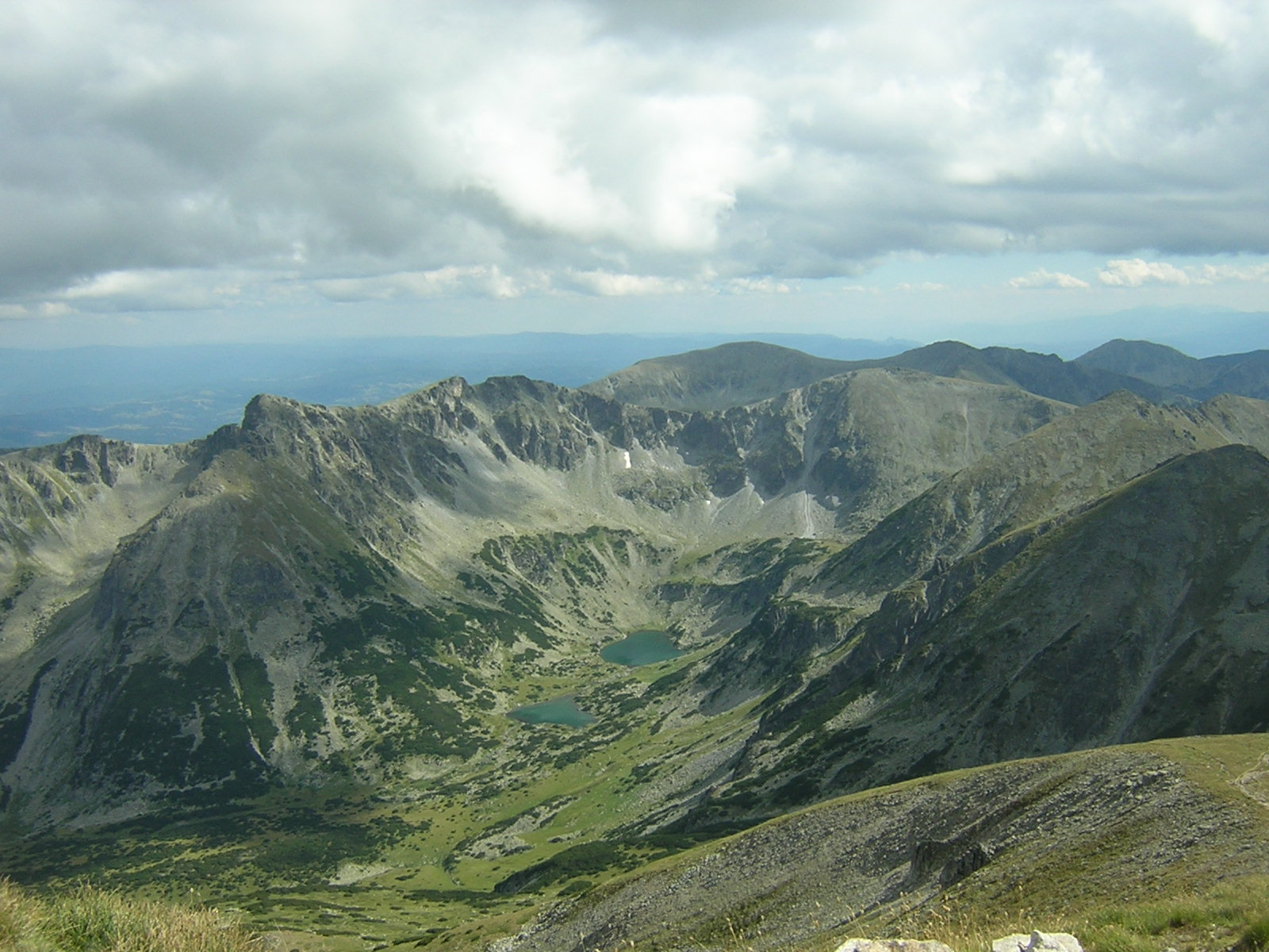 Origins of the Maritsa River in Rila Mountain, Bulgaria. Marichini ezera (Maritsa Lakes), Marichin Tsirkus (Maritsa Cirque) and Marishki Vrah (Maritsa Peak, 2765 m), as seen from the top of Musala Peak (2925 m, summit of the Balkans)